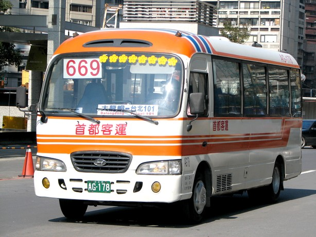 Hyundai County minibus AG-178 is operated by Capital Bus.